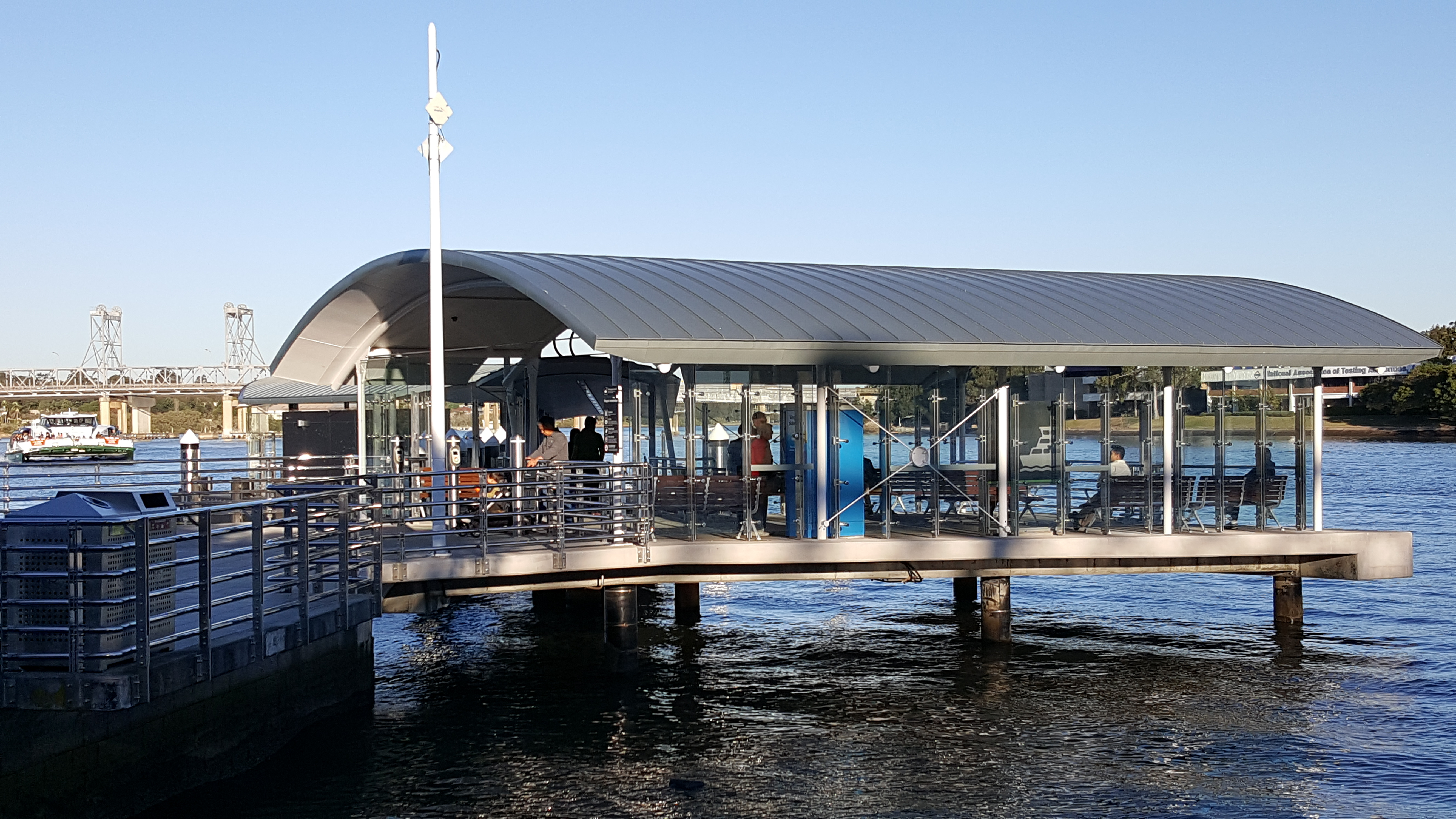 Meadowbank ferry wharf